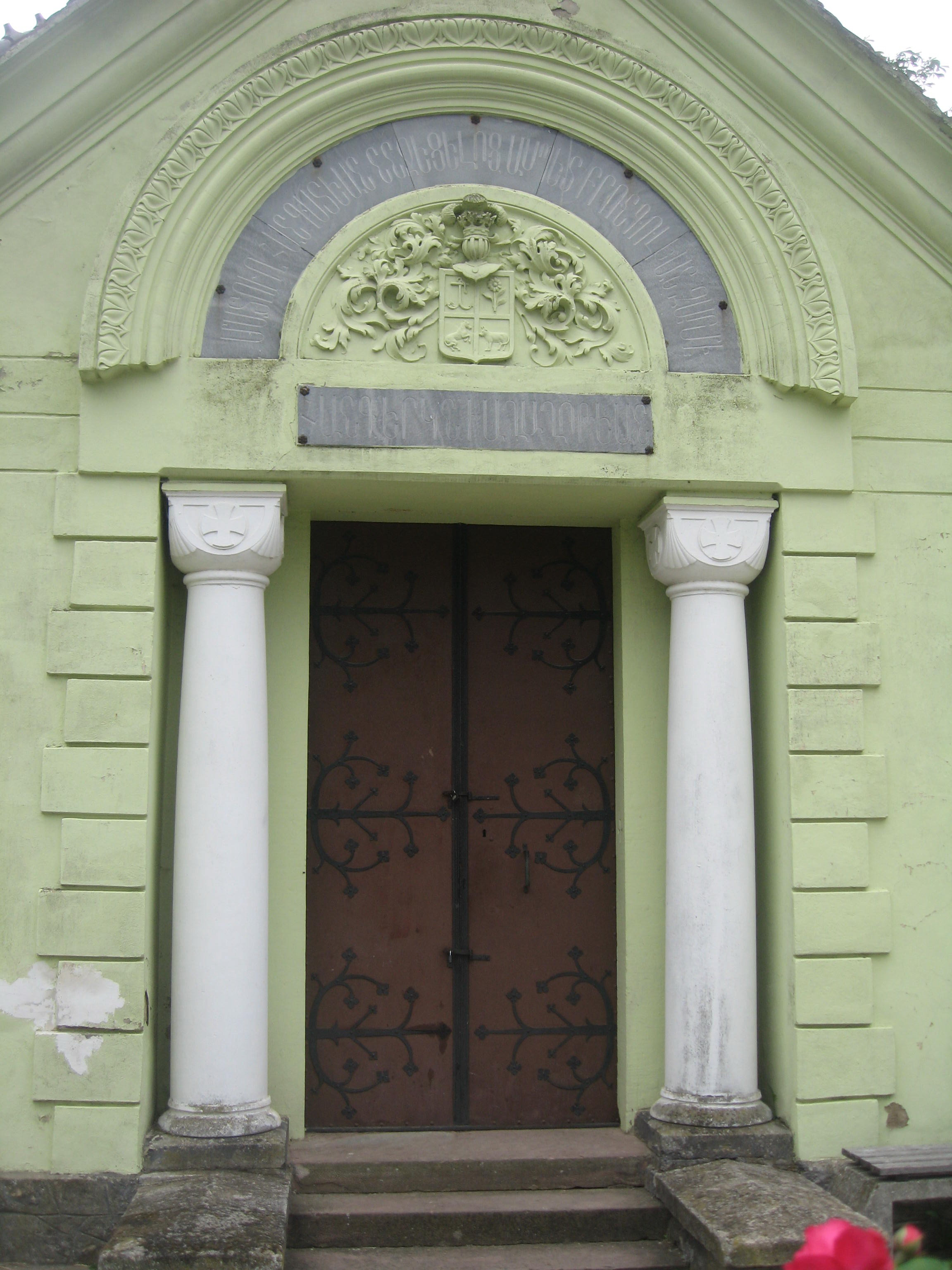 Pruncul Chapel in Suceava - entrance door. Inscription in Western Armenian language Upper half-round: ՄԱՏՈՒՌ ՀԱՆԳՍՏԵԱՆ ՆՆՋԵՑԵԼՈՑ, ԱՍՊԵՏ ԲՐՈՆԳՈՒԼԵԱՆ ԶԱՐՄԻ։ Lower line: ՀԱՆԳ."ԵՐԿՆ" ԽԱՂԱՂՈԹԵԱՆ rough translation chapel for resting tomb (literally place for sleeping), cavaler Brongulean family (clan) calm(?) sorrow(?) of peace